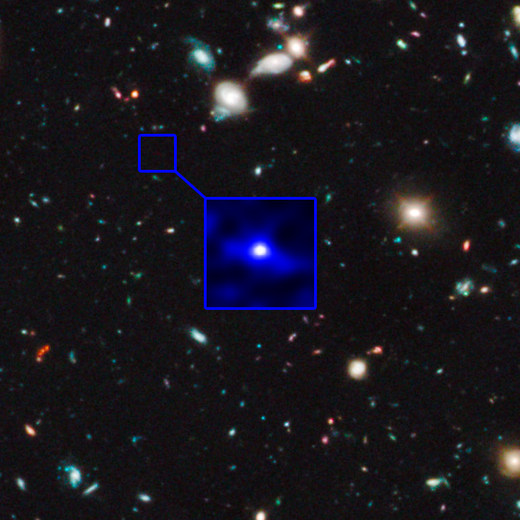 The most distant Object in the Universe as of 27 January 2011. It is a Galaxy called UDFj-39546284 and has a redshift of z~10.